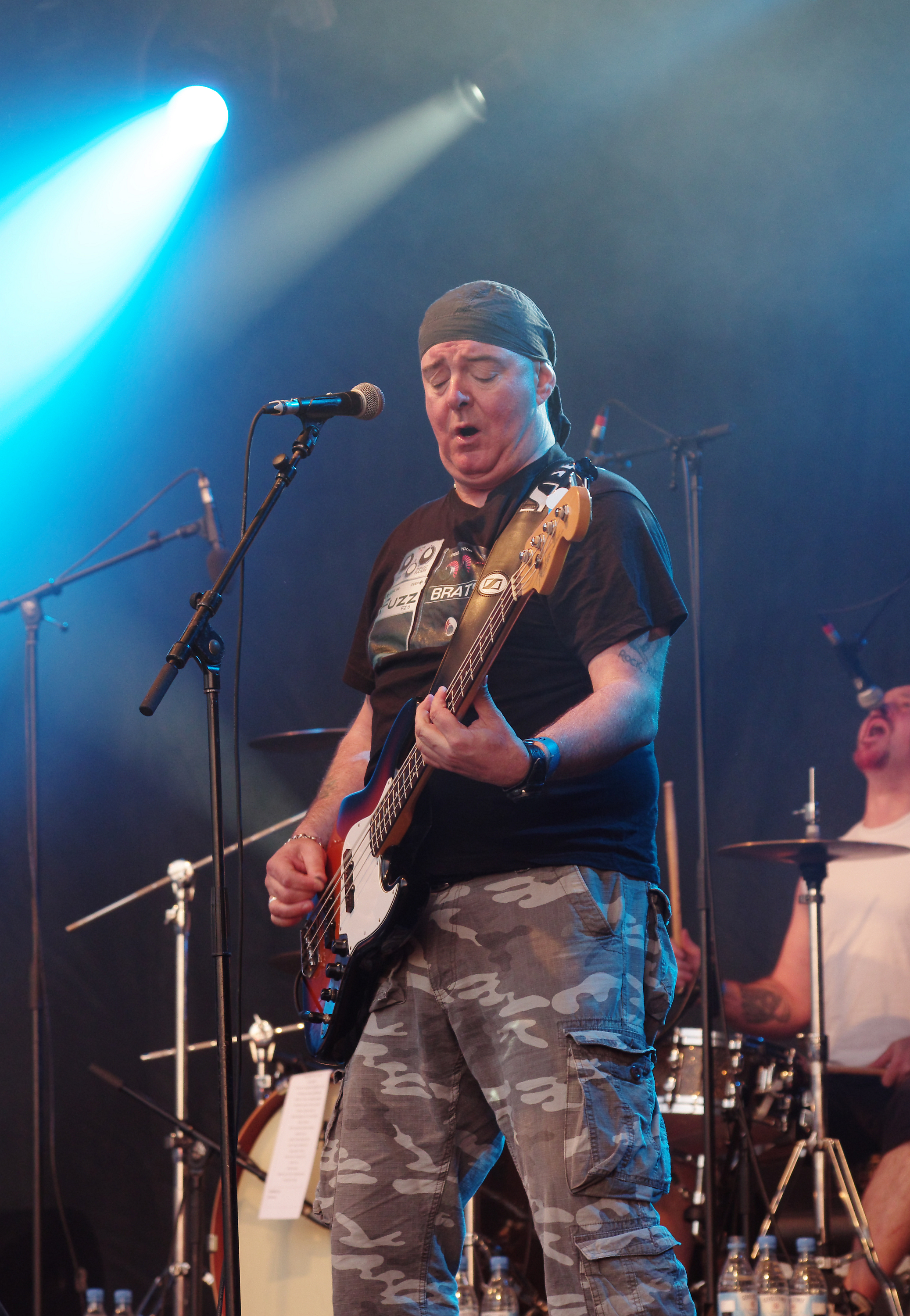 Cockney Rejects beim Ruhrpott Rodeo 2013 in Hünxe. Tony Van Frater (Bass)